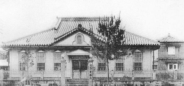 Okinawa-Ginko in Meiji and Taisho era